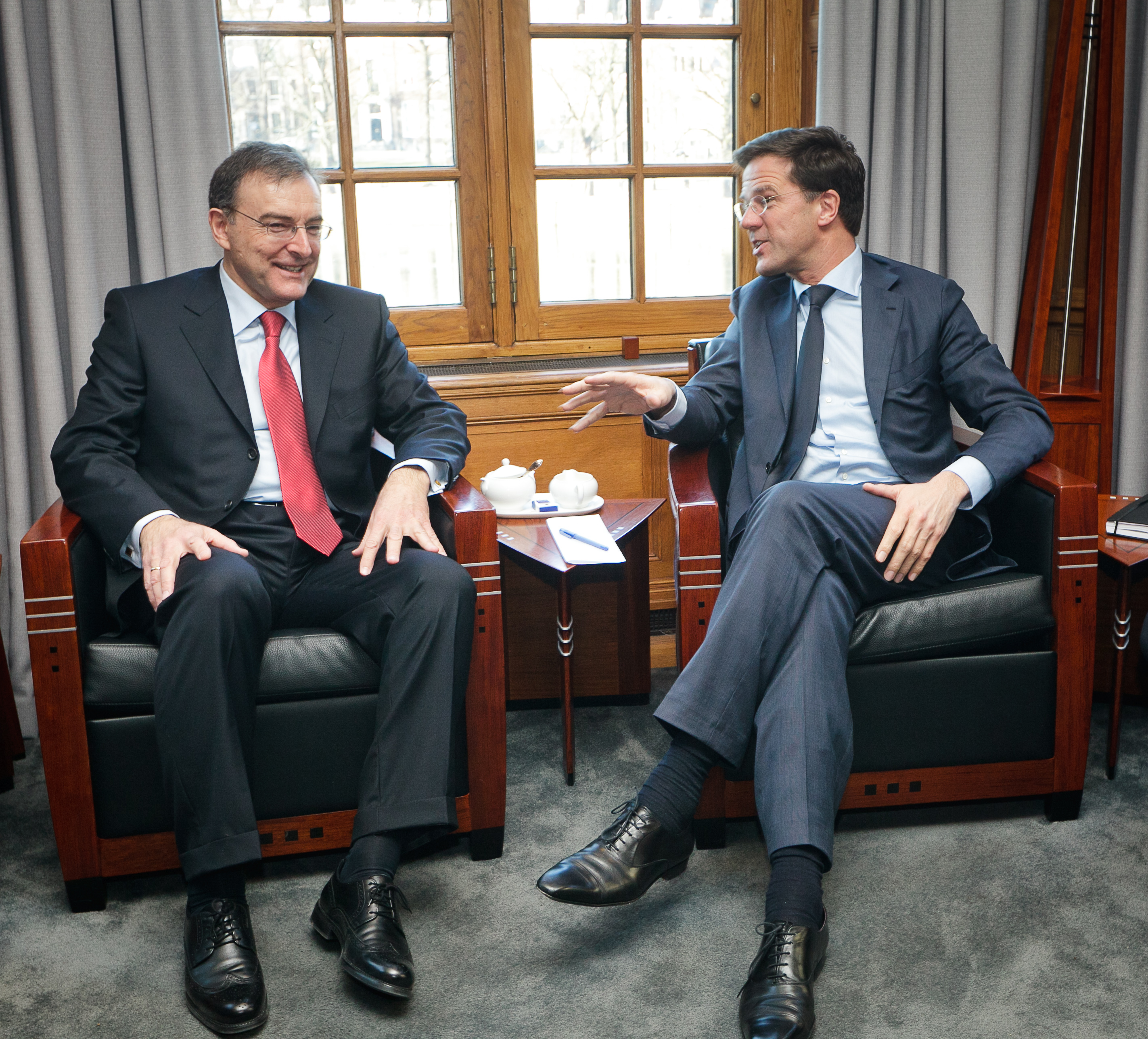 Norbert Reithofer (CEO of BMW) and Mark Rutte (Prime Minister of the Netherlands)